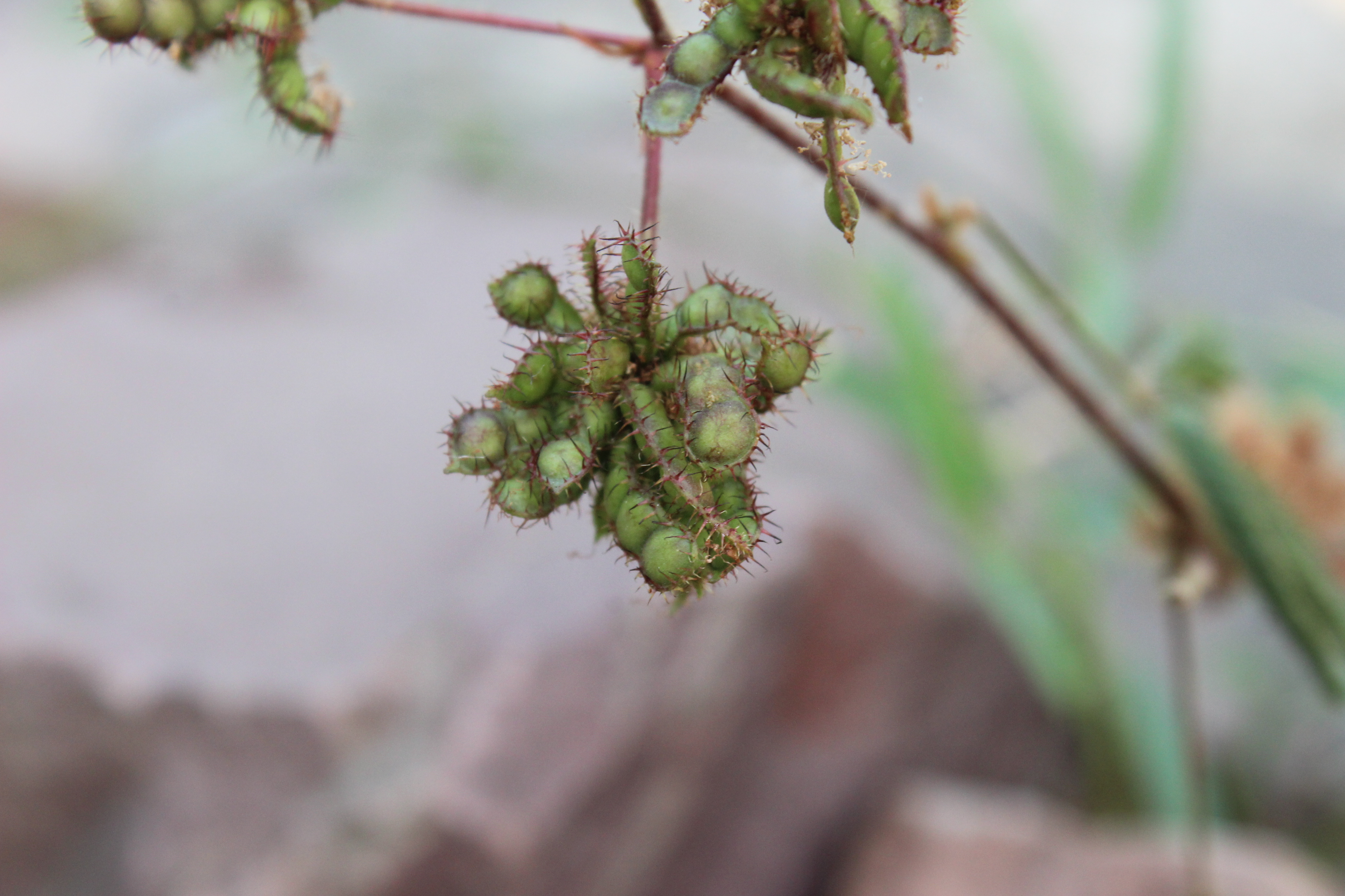 Mimosa pudica seeds in Bhopal